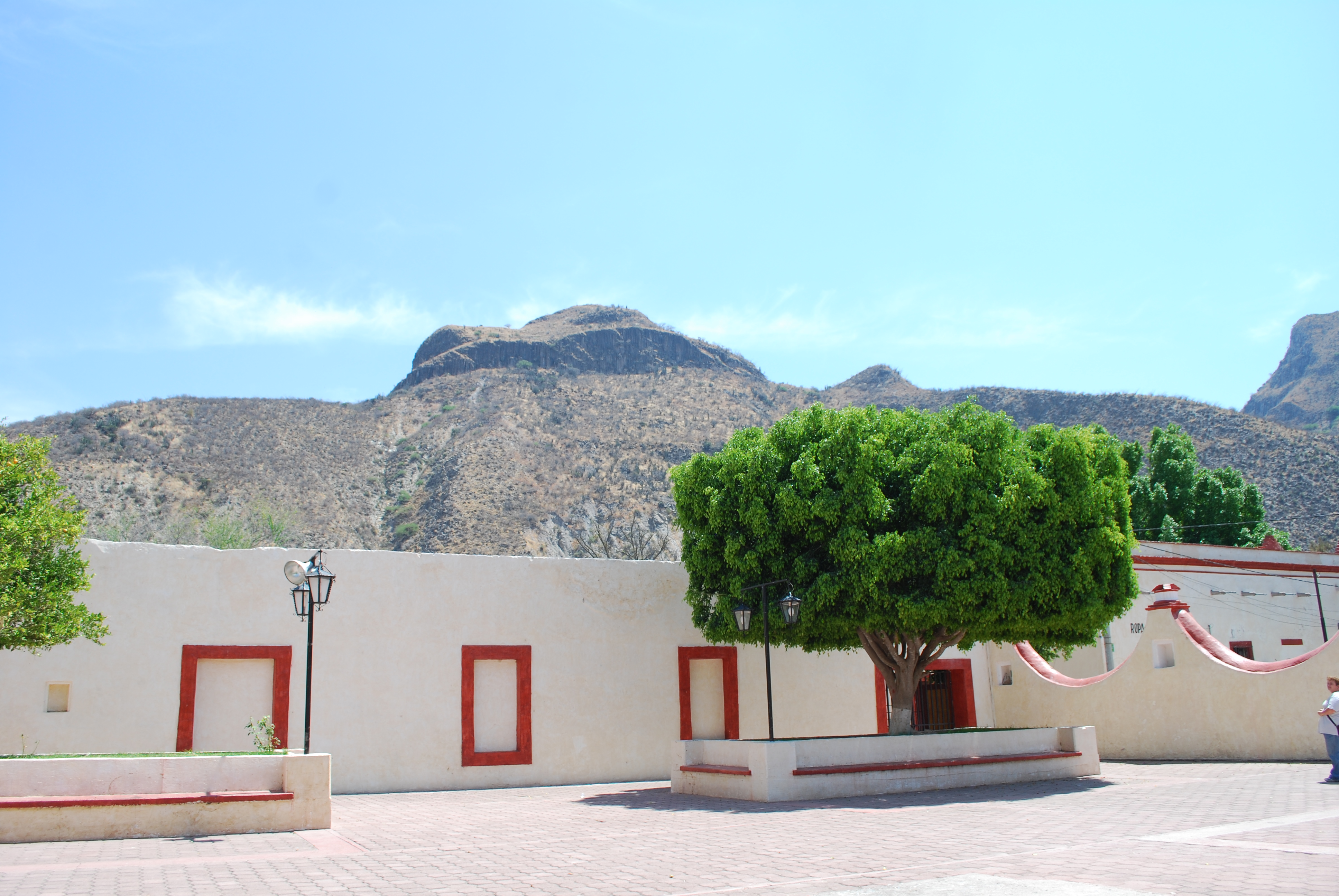 View of the Picacho of Peñamiller from the parish church atrium in Peñamiller, Querétaro, Mexico